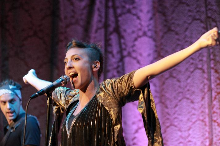 Lead vocalist Aja Volkman of the rock group Nico Vega at the Sainte Rocke.